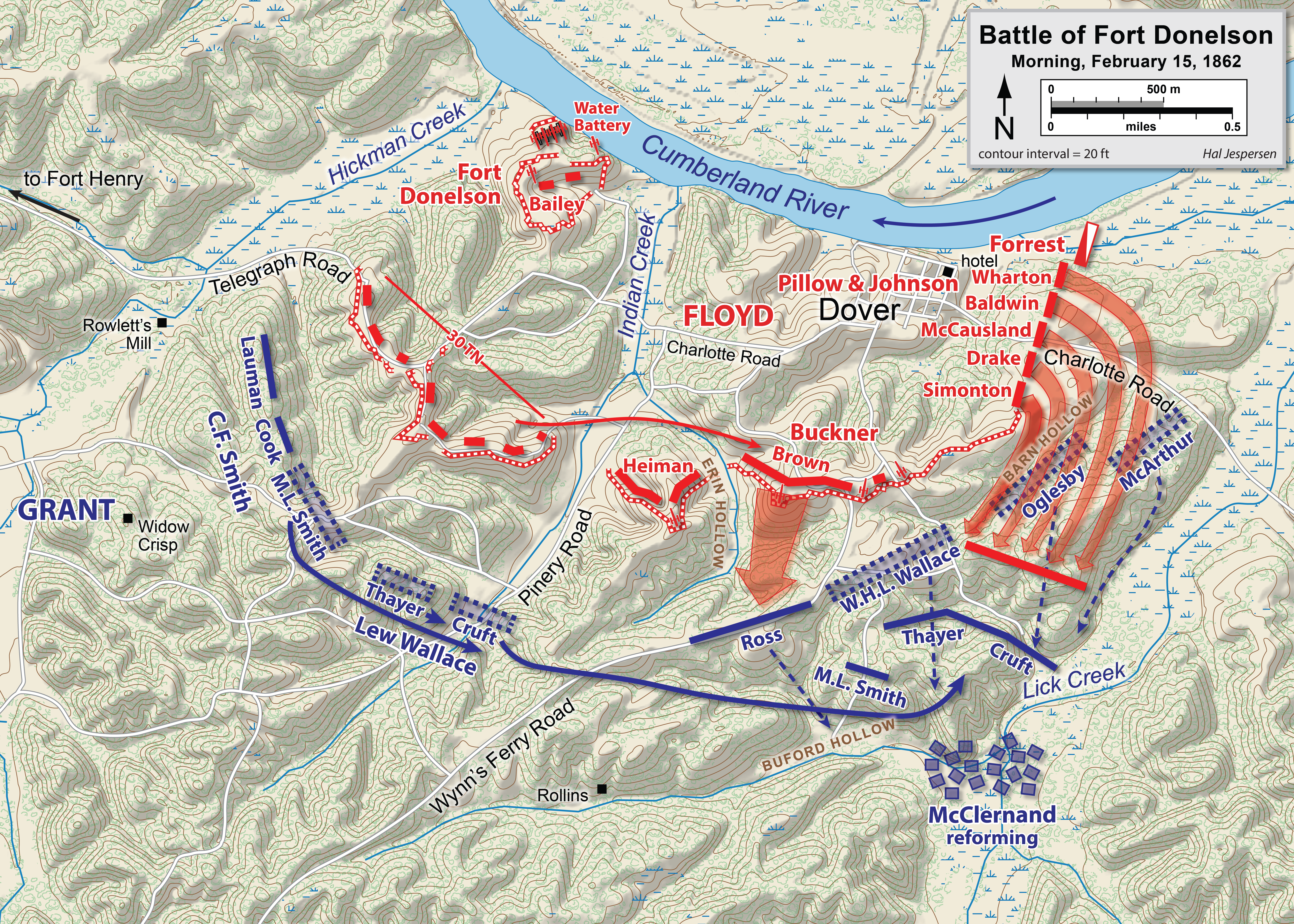 One of a series of 4 maps of the Battle of Fort Donelson of the American Civil War. Drawn in Adobe Illustrator CC by Hal Jespersen. Graphic source file is available at